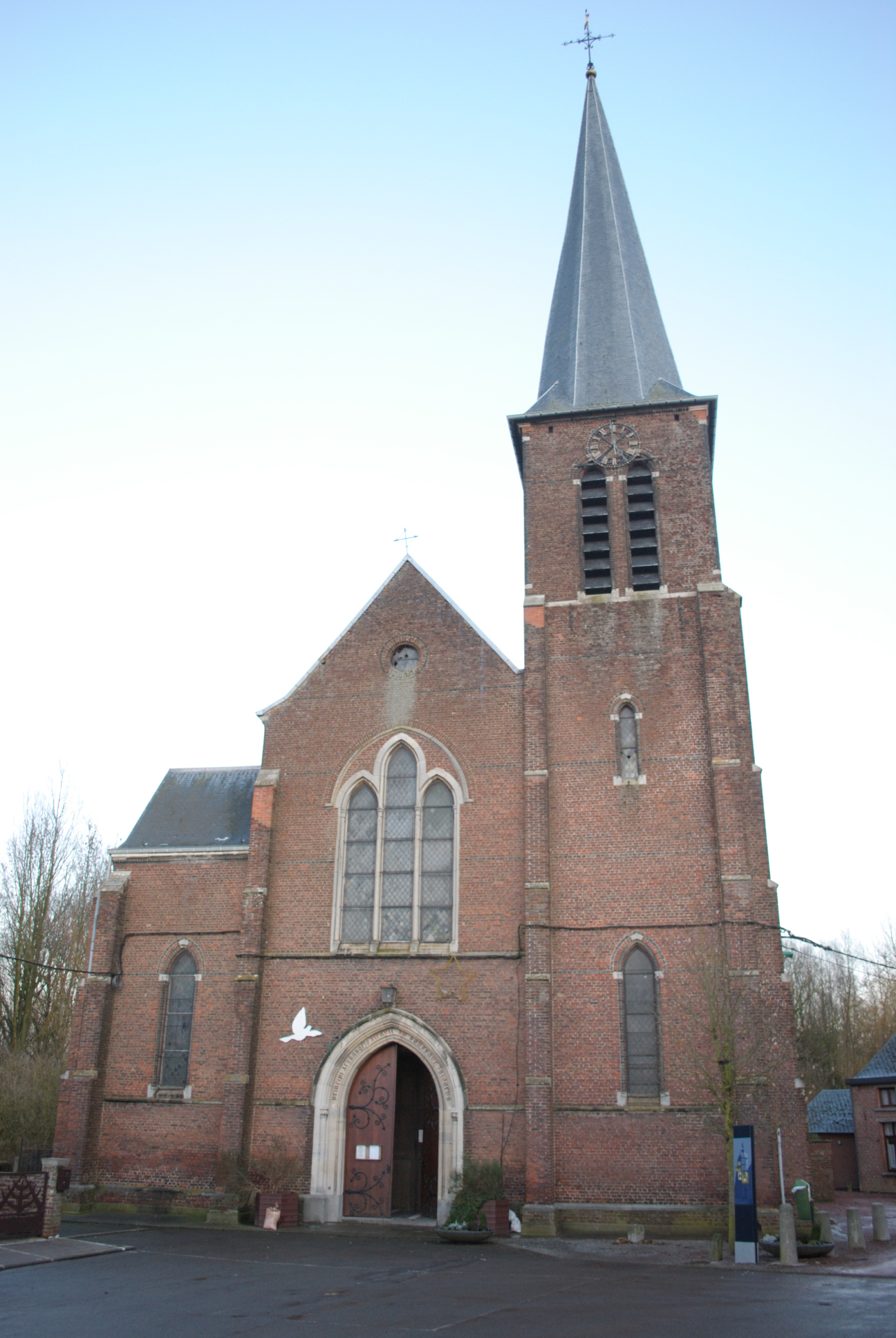 Church of Saint Michael at the village of Graty, commune of Silly, Belgium. Nikon D60 f=18mm f/3.8 at 1/60s ISO 200. Edited using Nikon ViewNX 1.0.3.